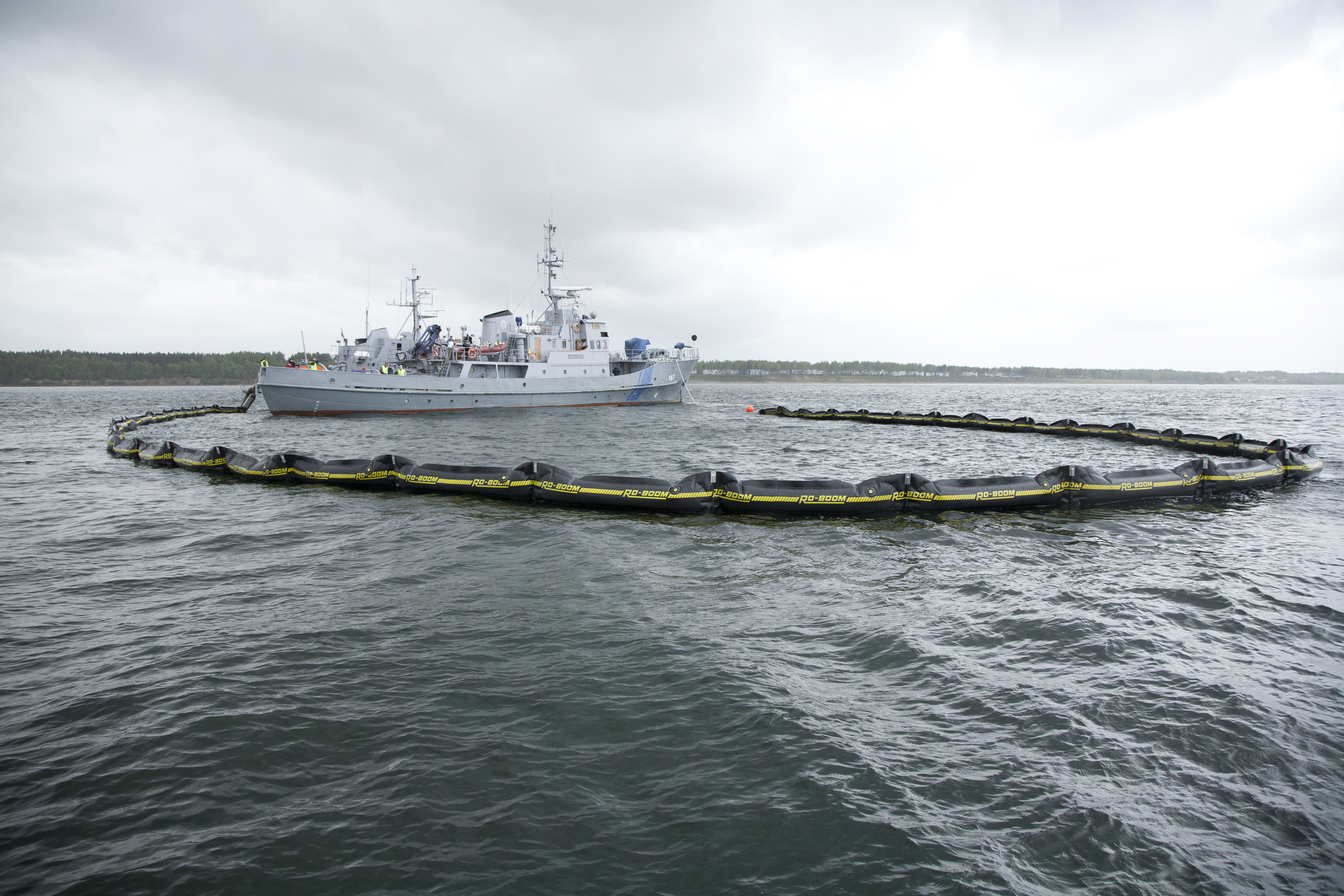 Training exercise Puhas Meri (Clean Sea).